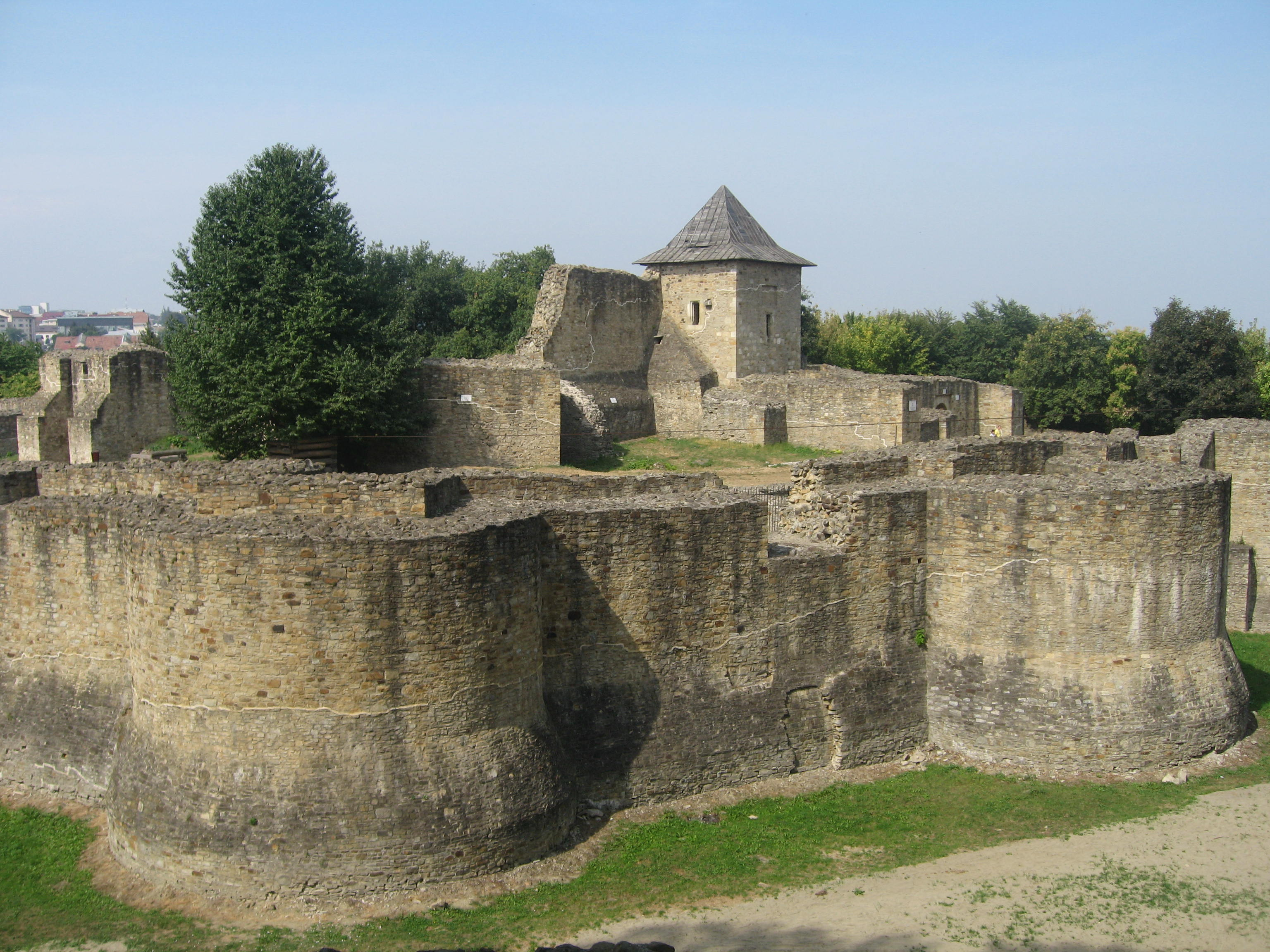 Seat Fortress of Suceava – the center part.